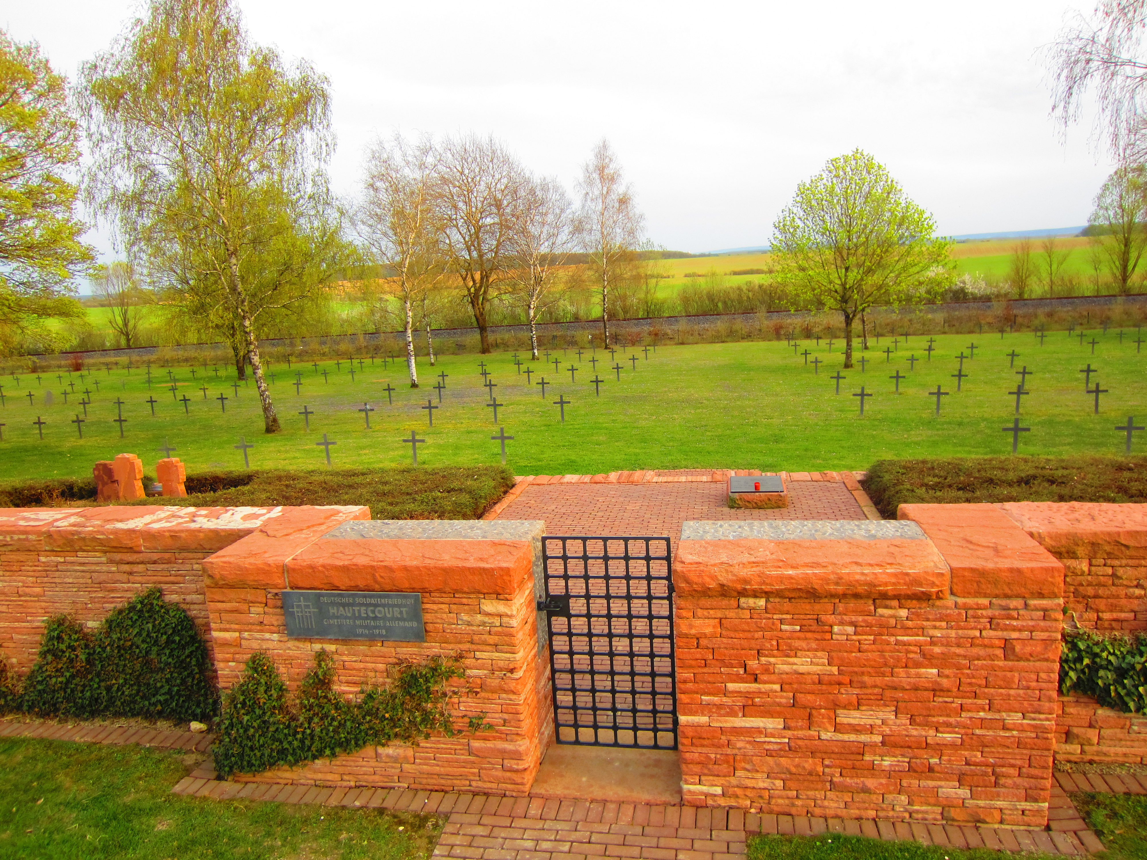 Abaucourt Hautecourt war cemetery deutsch